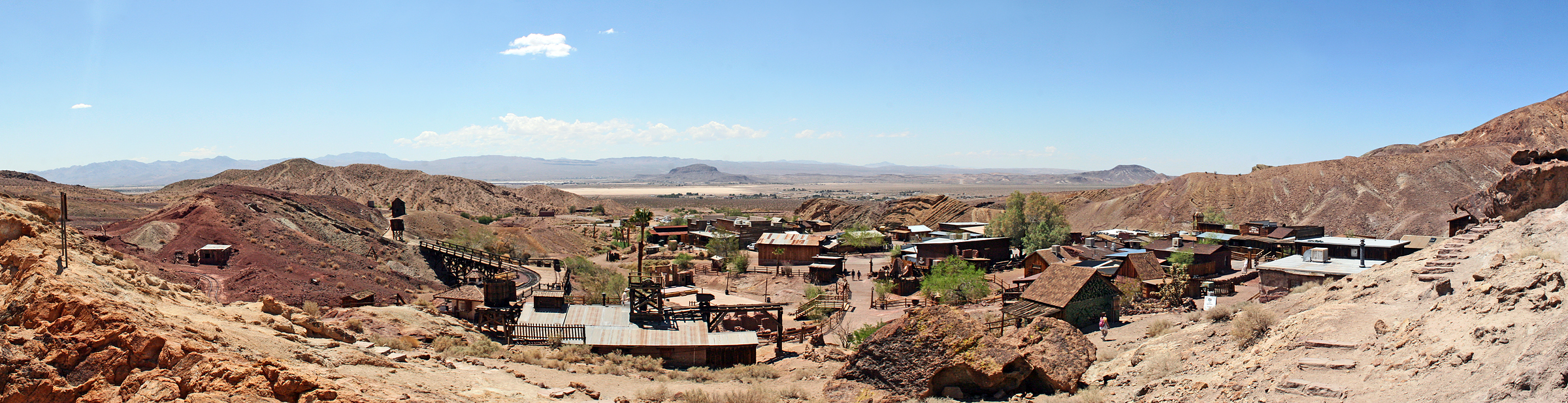 United States of America West Coast Trip 2012